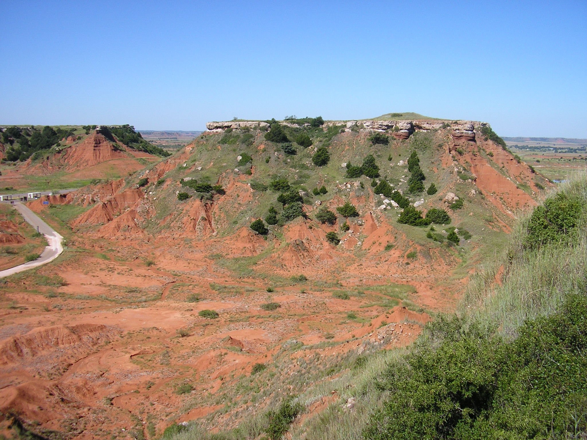 Gloss (Glass) Mountains in Oklahoma. Taken from the top of a mesa at Gloss Mountain State Park.